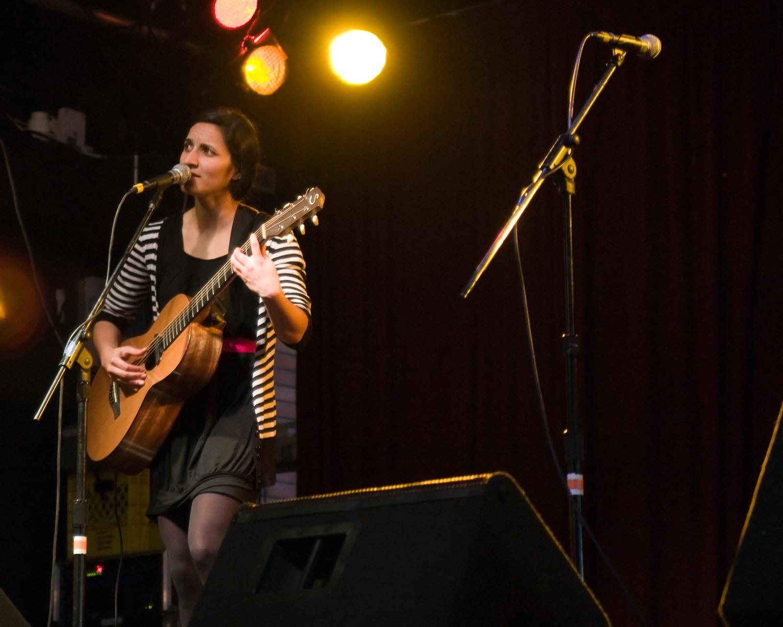 Madeleine Sami singing solo at the Kings Arms, Auckland, New Zealand